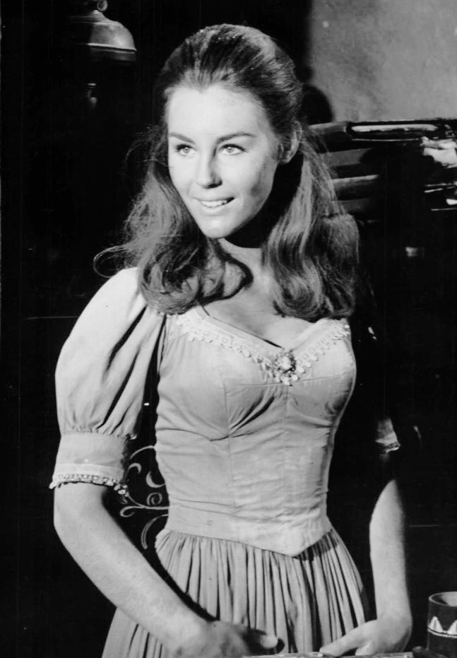 Photo of actress Tiffany Bolling from a guest appearance on the television program Bonanza. Original caption: “Featured Role — Tiffany Bolling is featured as one of a group — trapped in the basement of a collapsing courthouse — who must rely on the help of a miner accused of murder, in "Five Candles" on NBC Television Network's "Bonanza" colorcast Sunday, March 2 (9-10 p.m. NYT). (2/7/69)”